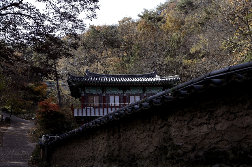 Golgul temple 1